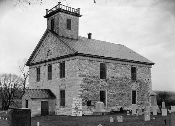 Fort Herkimer Church, Herkimer (Herkimer County, New York) cropped